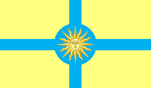 Flag of the Kamianets-Podilskyi Raion of Ukraine.